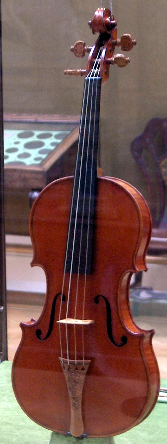 The Messiah Stradivarius violin by Antonio Stradivari, on display at the Ashmolean museum, room 39, inv. no. WA1940.112